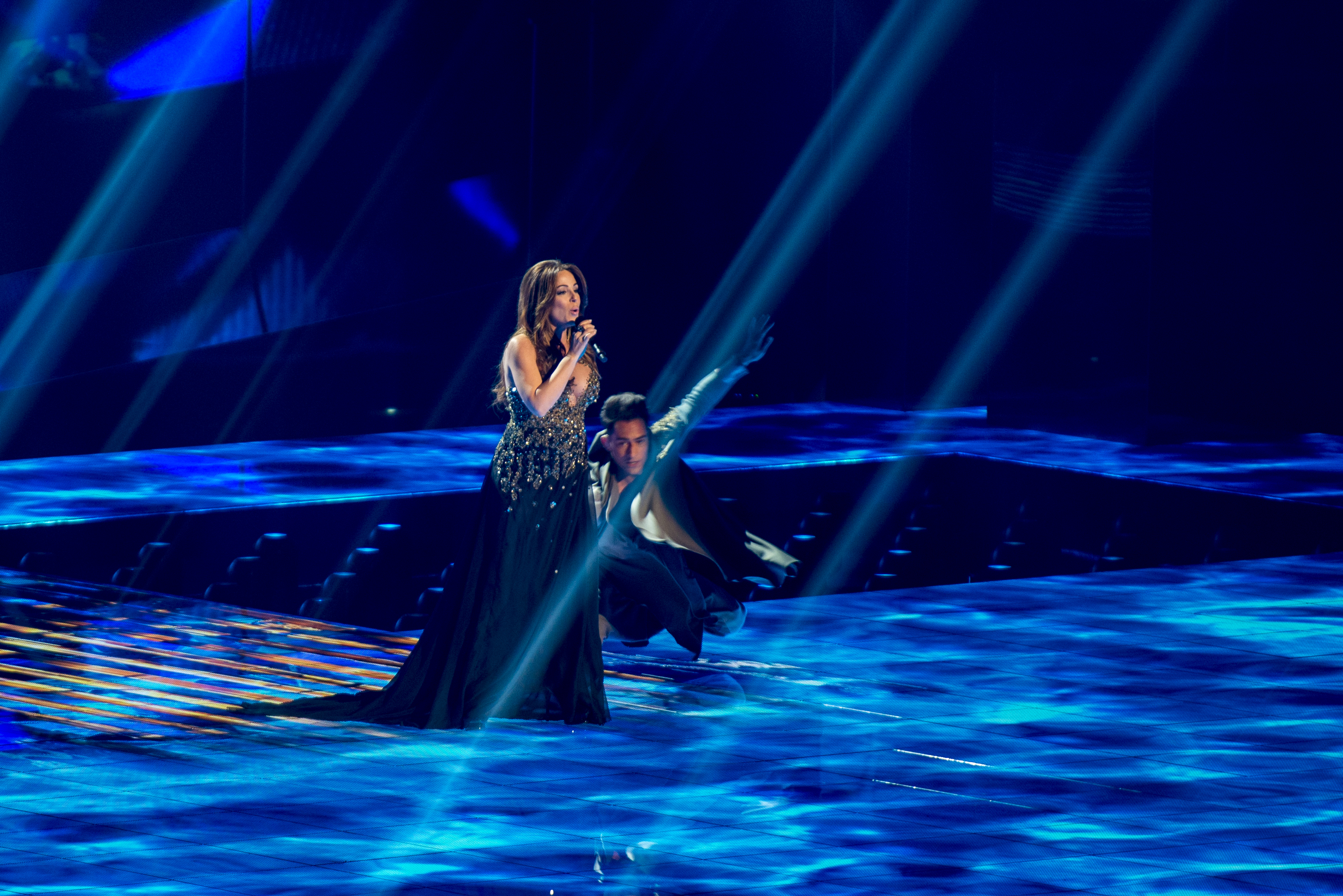 Ira Losco representing Malta with the song "Walk on Water" during a rehearsal before the first semi final of the Eurovision Song Contest 2016 in Stockholm. (Help translate this text)